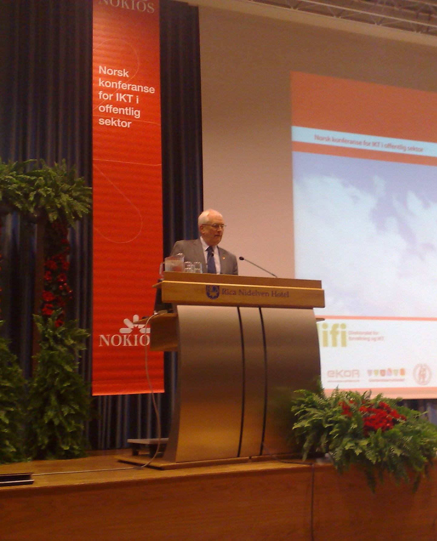 Rector at NTNU, Torbjørn Digernes, welcomes to the NOKIOS conference 2009.